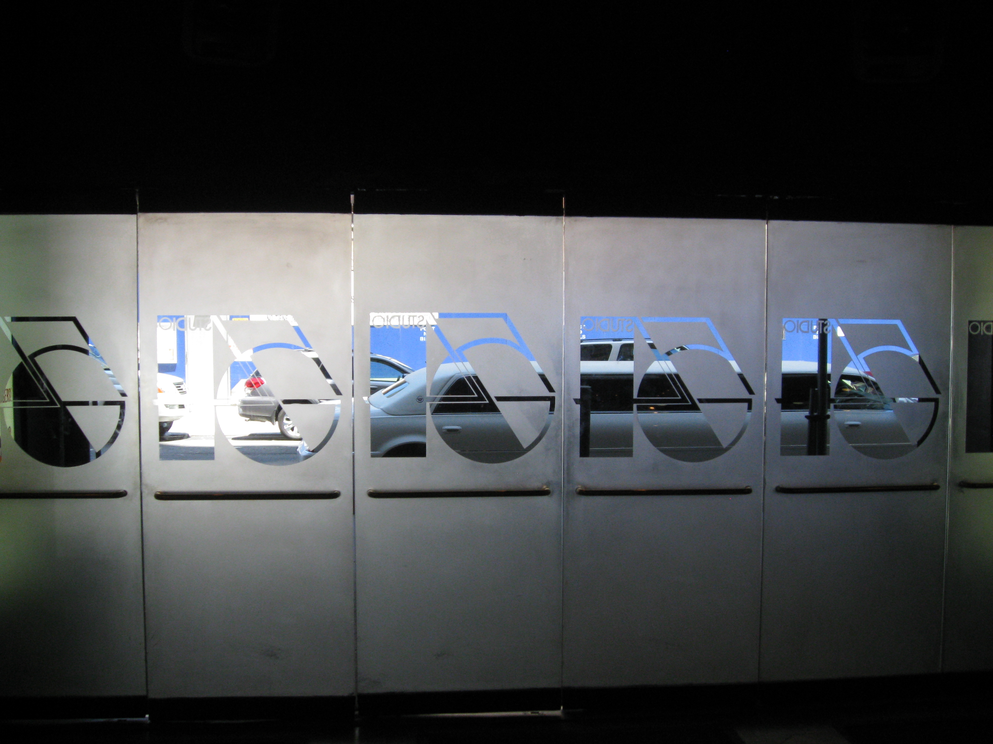 Studio 54 (New York City) from the inside, May 2010